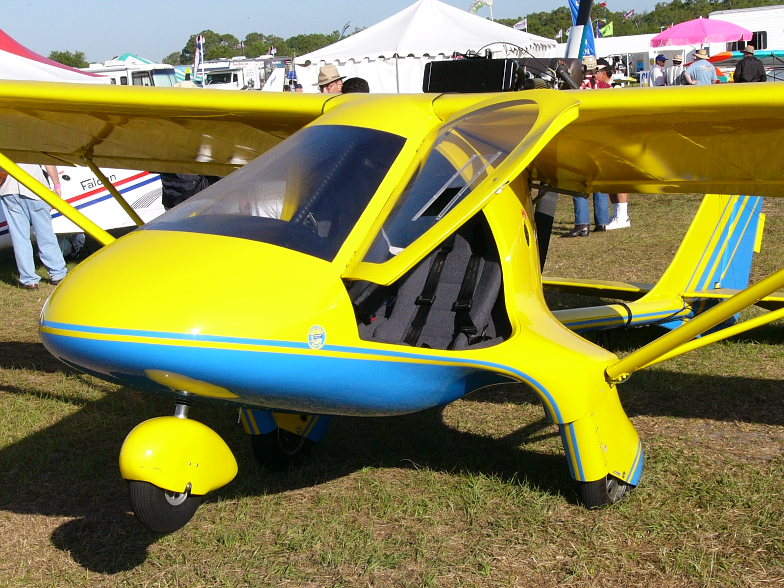 InterPlane Skyboy at Sun 'n Fun 2004, Lakeland, Florida, USA